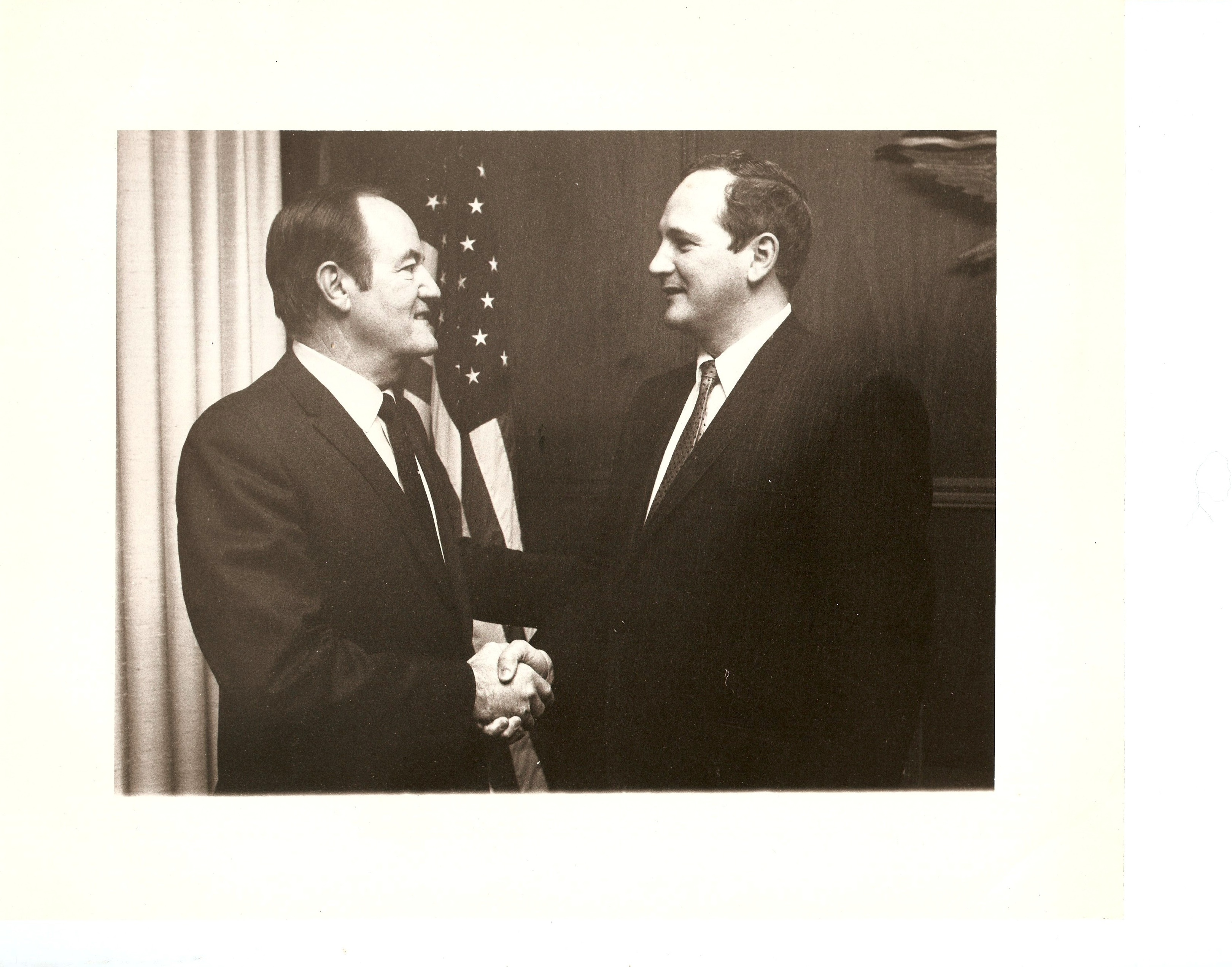 This photo is from Charles Woodford family archives showing a meeting with Hubert Humphrey. The date is estimated.